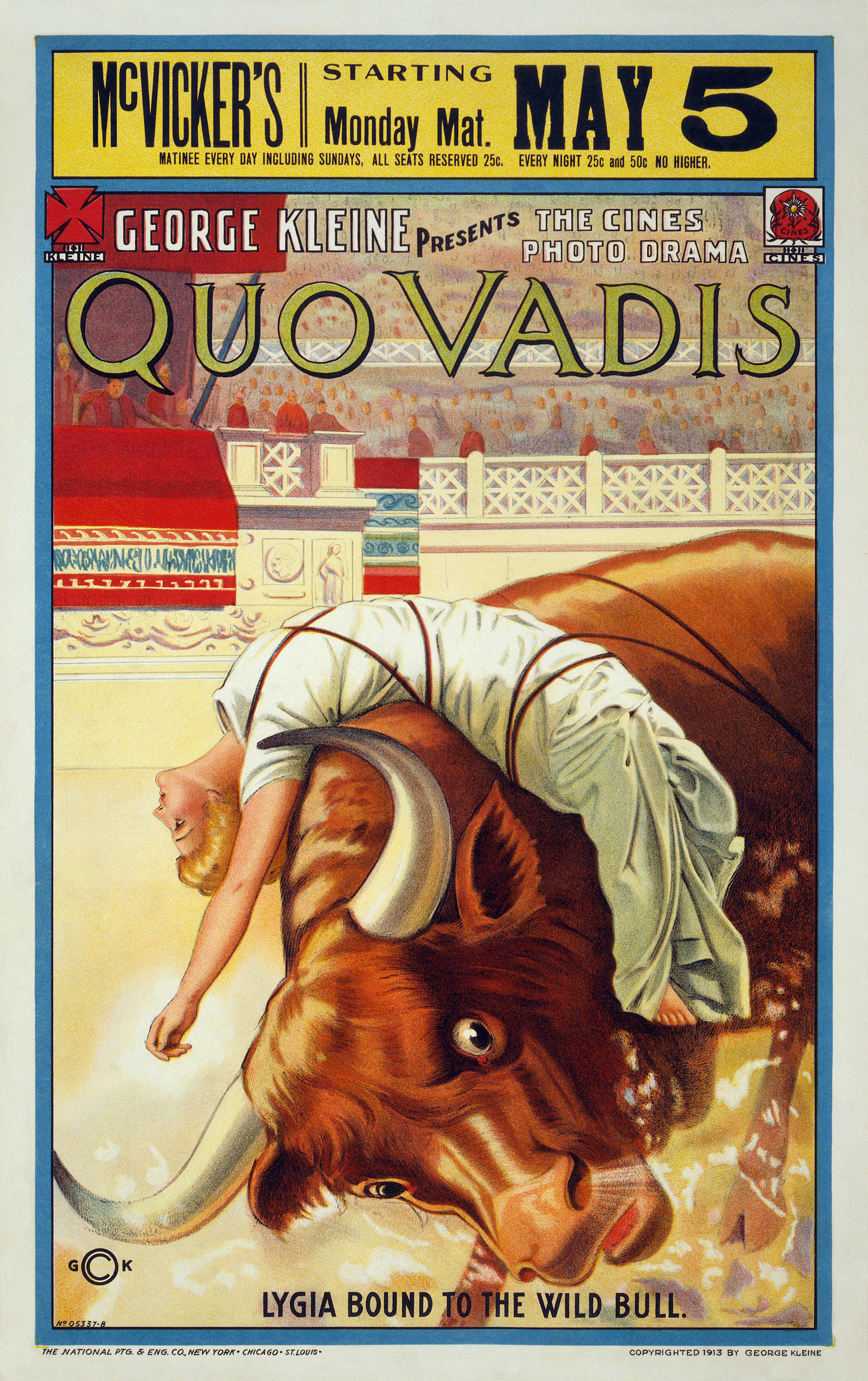 "George Kleine presents the Cines photo drama Quo Vadis: Lygia Bound to the Wild Bull." Chromolithograph poster for 1913 film. Poster copyrighted to George Kleine. 56×36cm Text transcription: McVicker's Starting May 5 / Monday Mat. [Or "McVicker's Starting Monday Mat. May 5" - text arrangement makes the reading order unclear] MATINEE EVERY DAY INCLUDING SUNDAYS, ALL SEATS RESERVED 25¢. EVERY NIGHT 25¢ AND 50¢ NO HIGHER. [With logos captioned "KLEINE" and "CINES" respectively on either side] GEORGE KLEINE PRESENTS THE CINES PHOTO DRAMA QUO VADIS G©K LYGIA BOUND TO THE WILD BULL. № 05337-B [Left] THE NATIONAL PTG. & ENG. CO., NEW YORK • CHICAGO • ST. LOUIS • [Right] COPYRIGHTED 1913 BY GEORGE KLEINE